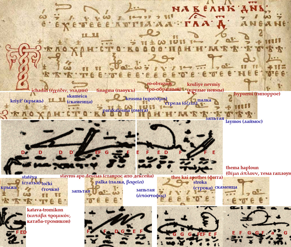 Comparison of Byzantine (GR-KA Ms. 8, f.36v Asmatikon of the Metropolitan Library of Kastoria) and Slavic (RUS-SPsc Ms. Q.п.I.32, f.97v Blagoveščenskiy Kondakar of the National Library of Russia) Kondakarian notation with the Koinonikon for Easter σῶμα χριστοῦ / тѣло христово in echos plagios protos (glas 5)